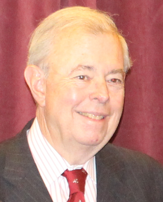 Former LA County District Attorney John Van De Kamp .